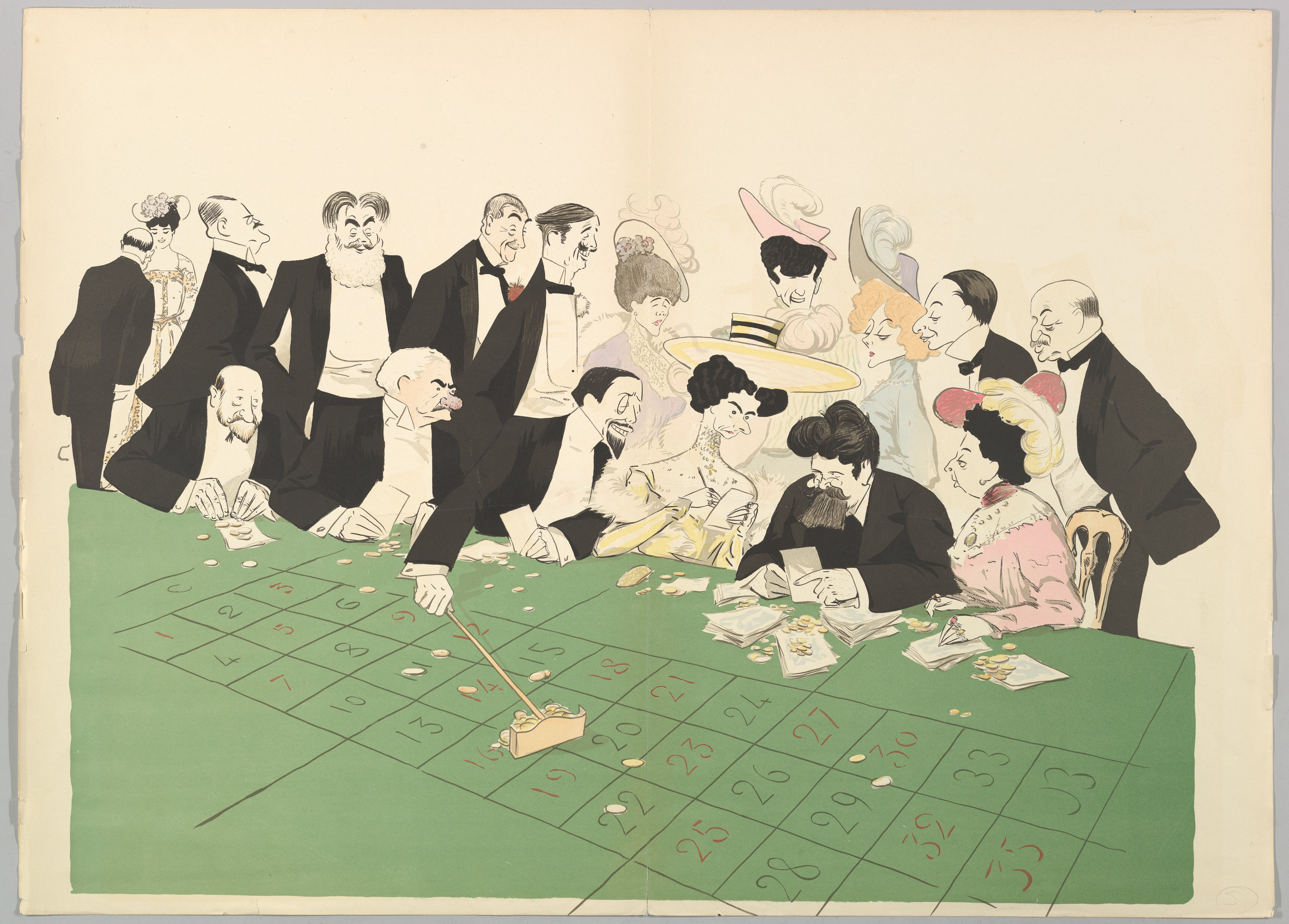 Print; Prints